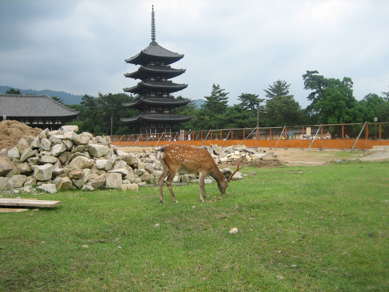 Nara deer and five story pagoda.